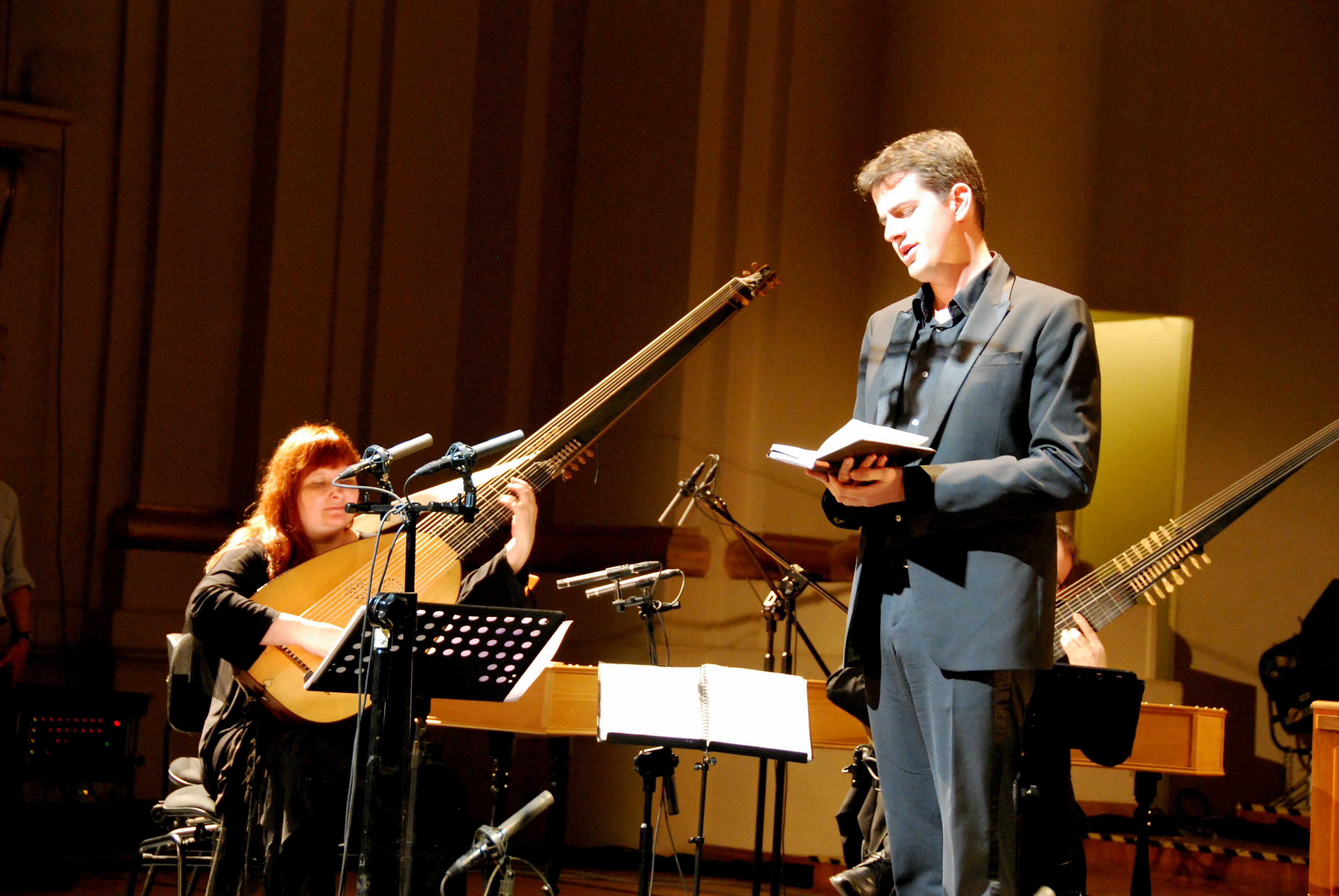 Christina Pluhar, Philippe Jaroussky, Misteria Paschalia Festival, Kraków Philharmonic, 21.04.2011.